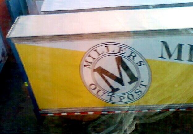 A former Miller's Outpost freight semi-trailer sitting at a vacant parking lot in Anaheim, California. Miller's Outpost, a Southern California clothing store founded by Dave Miller in 1972, operated until the store was re-branded as Anchor Blue Clothing Company. {1} This photograph was taken with a Samsung Reclaim SPH-m560 mobile phone camera and edited (saturation, brightness, contrast, color balance, sharpness) using ArcSoft PhotoStudio 5.5